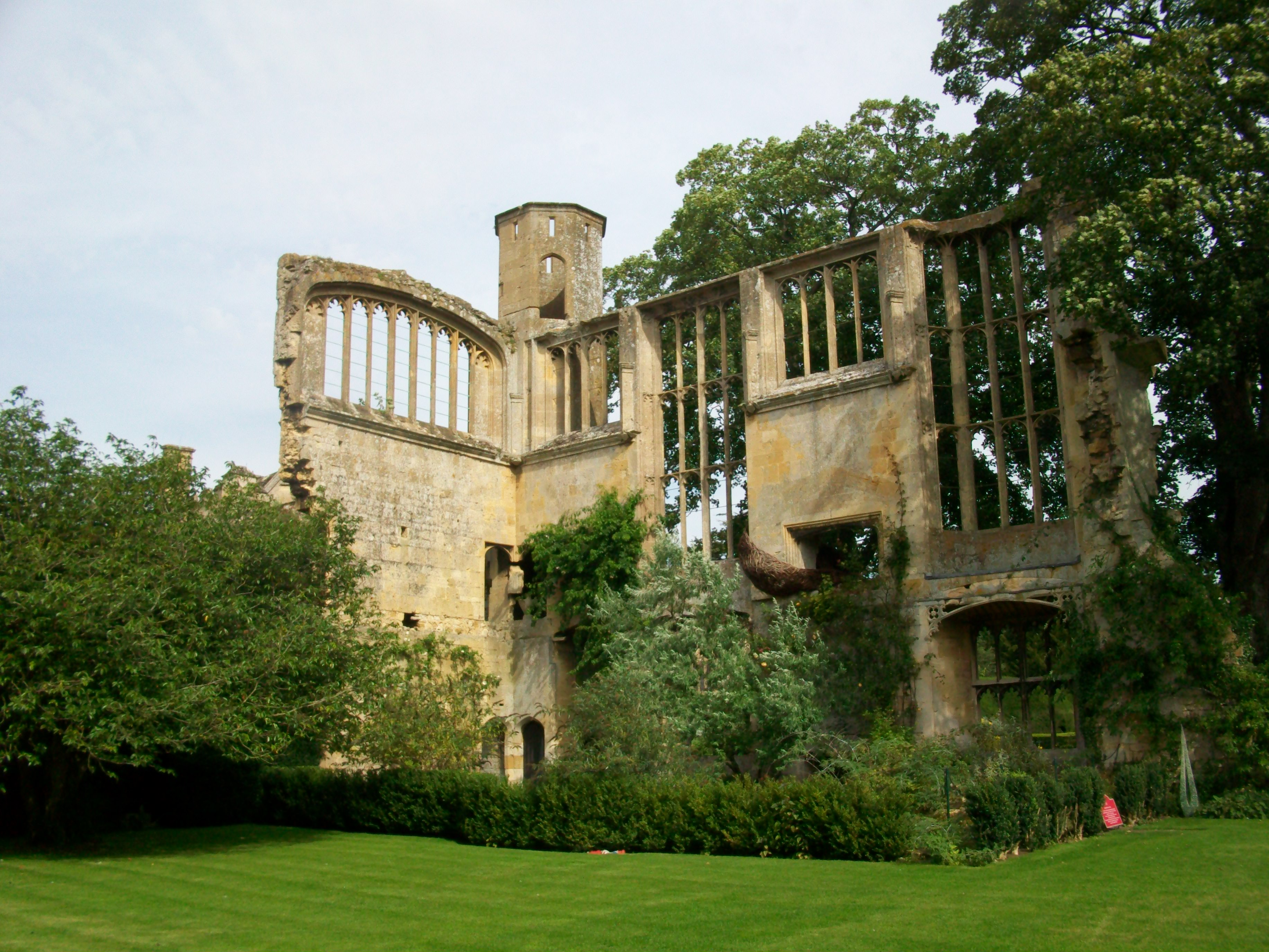 Sudeley Castle